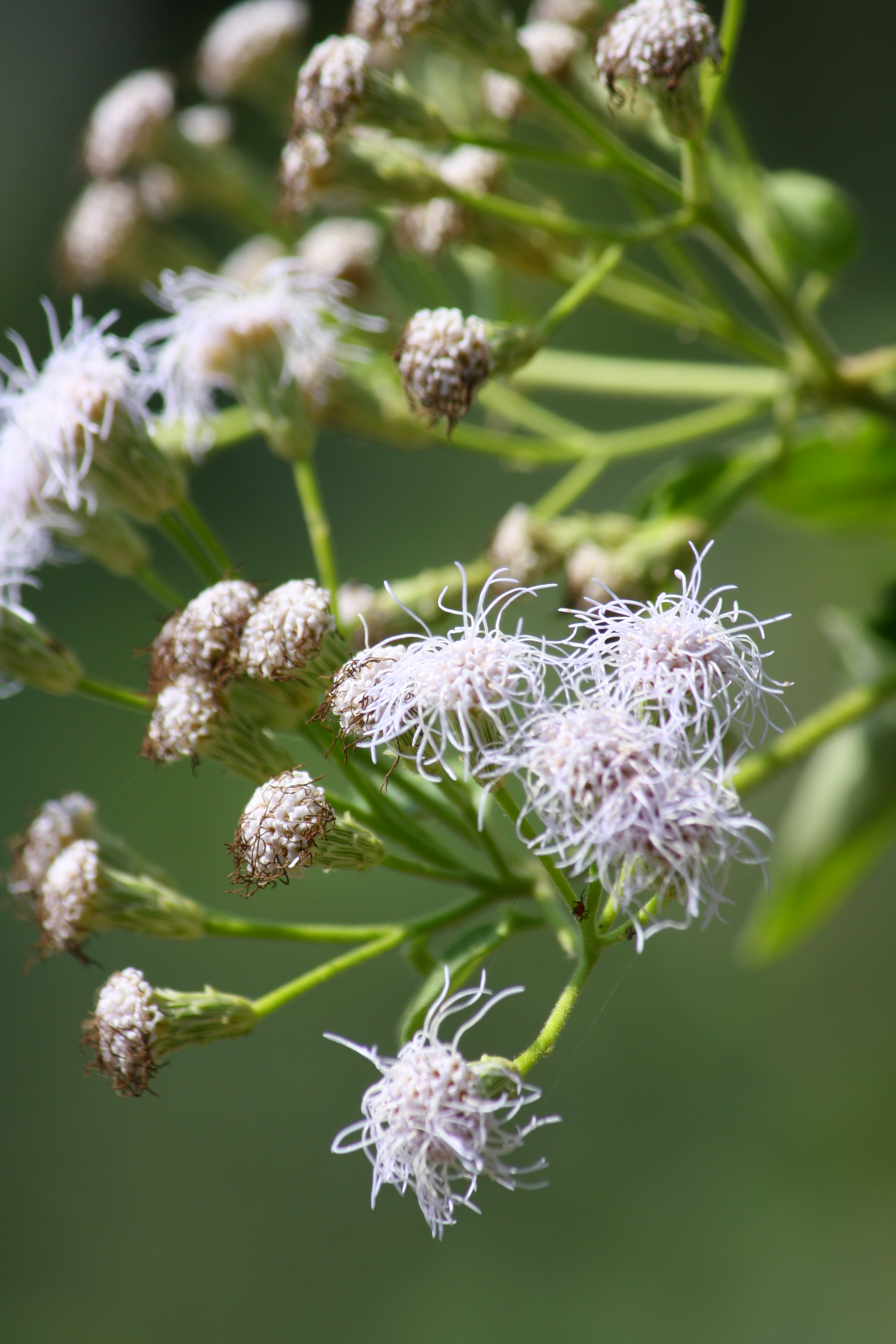 Chromolaena odorata